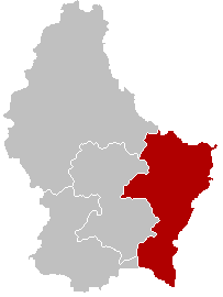 A map of the Chamber of Deputies circonscriptions (circonscriptions électorales) of Luxembourg, with Est highlighted.